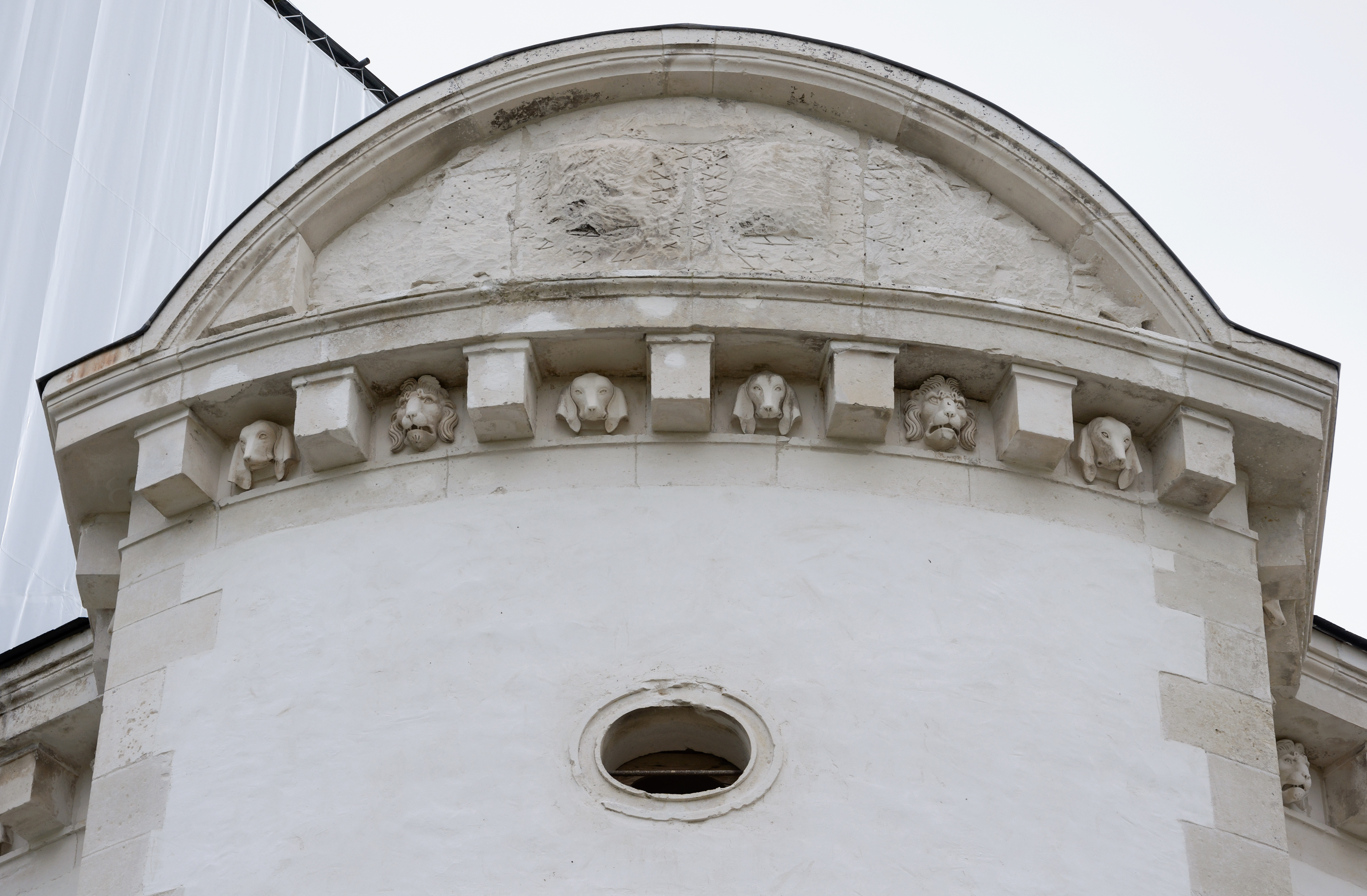 Château de Maulnes in Cruzy-le-Châtel, Burgundy, France: modillioned cornice with dogs and lions heads of the north turret.